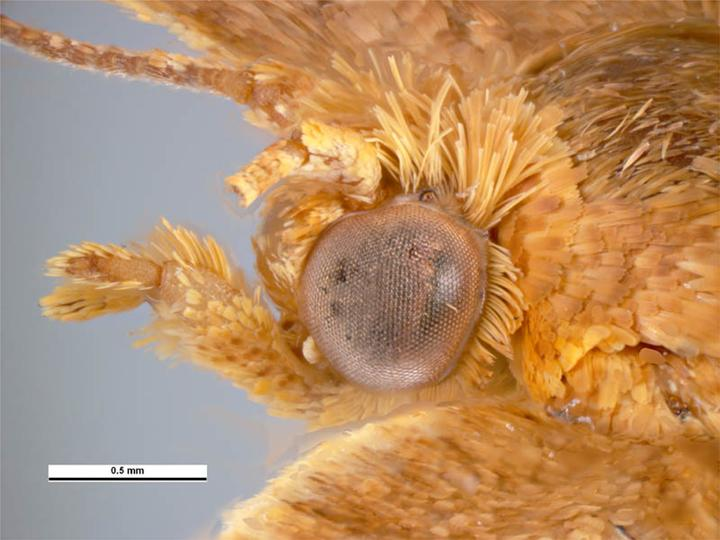 Head of Adoxophyes orana female